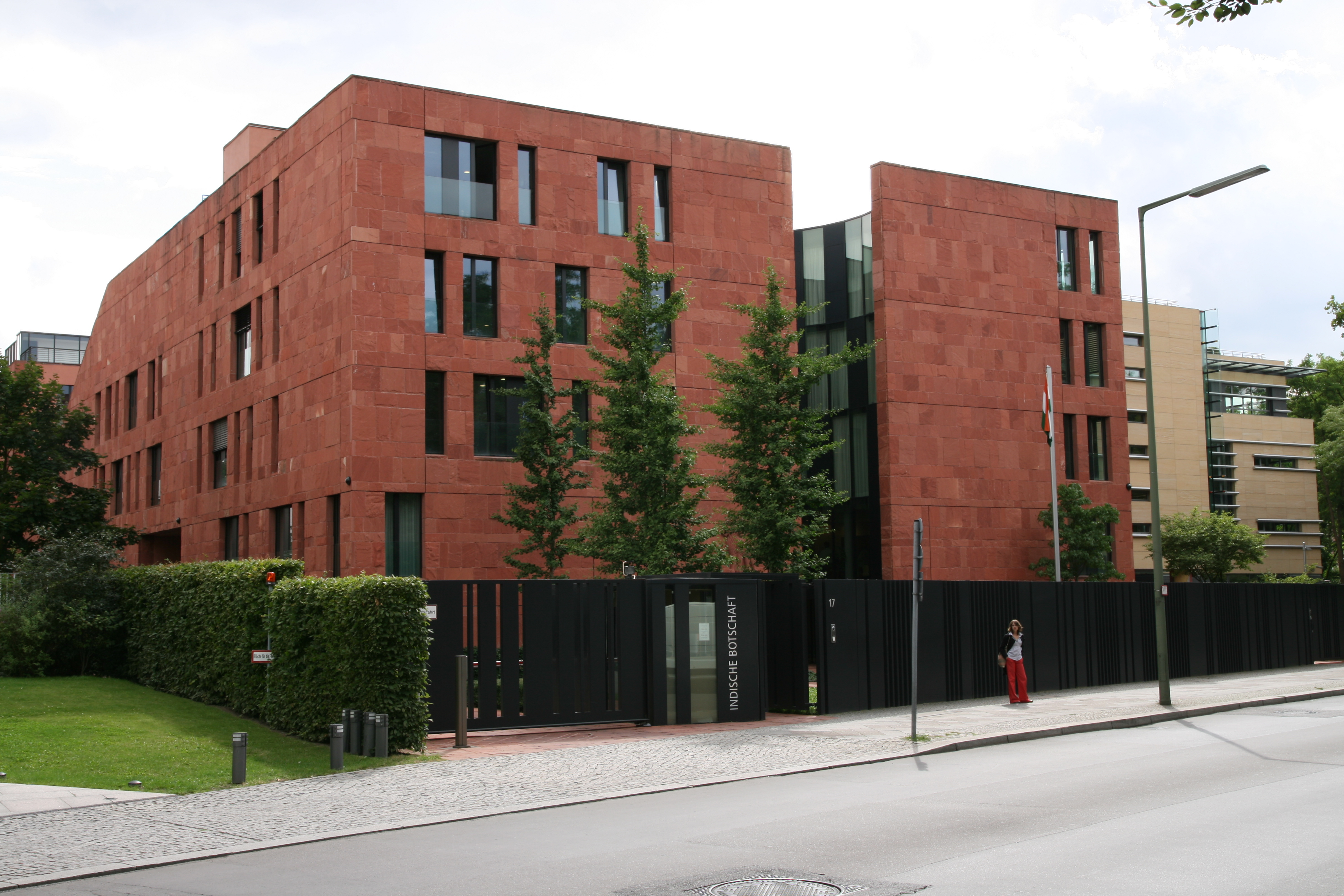 The Indian embassy in Berlin, photographed from across Tiergartenstraße.